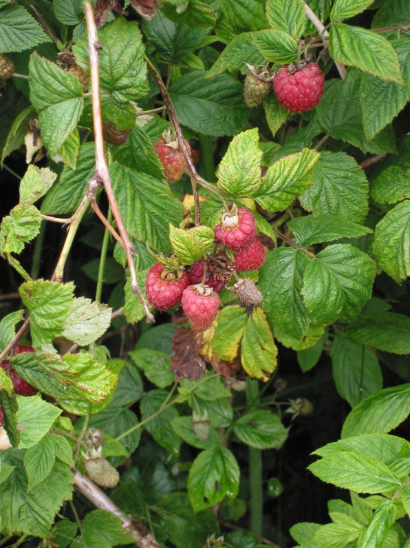 Rubus 'Schönemann'